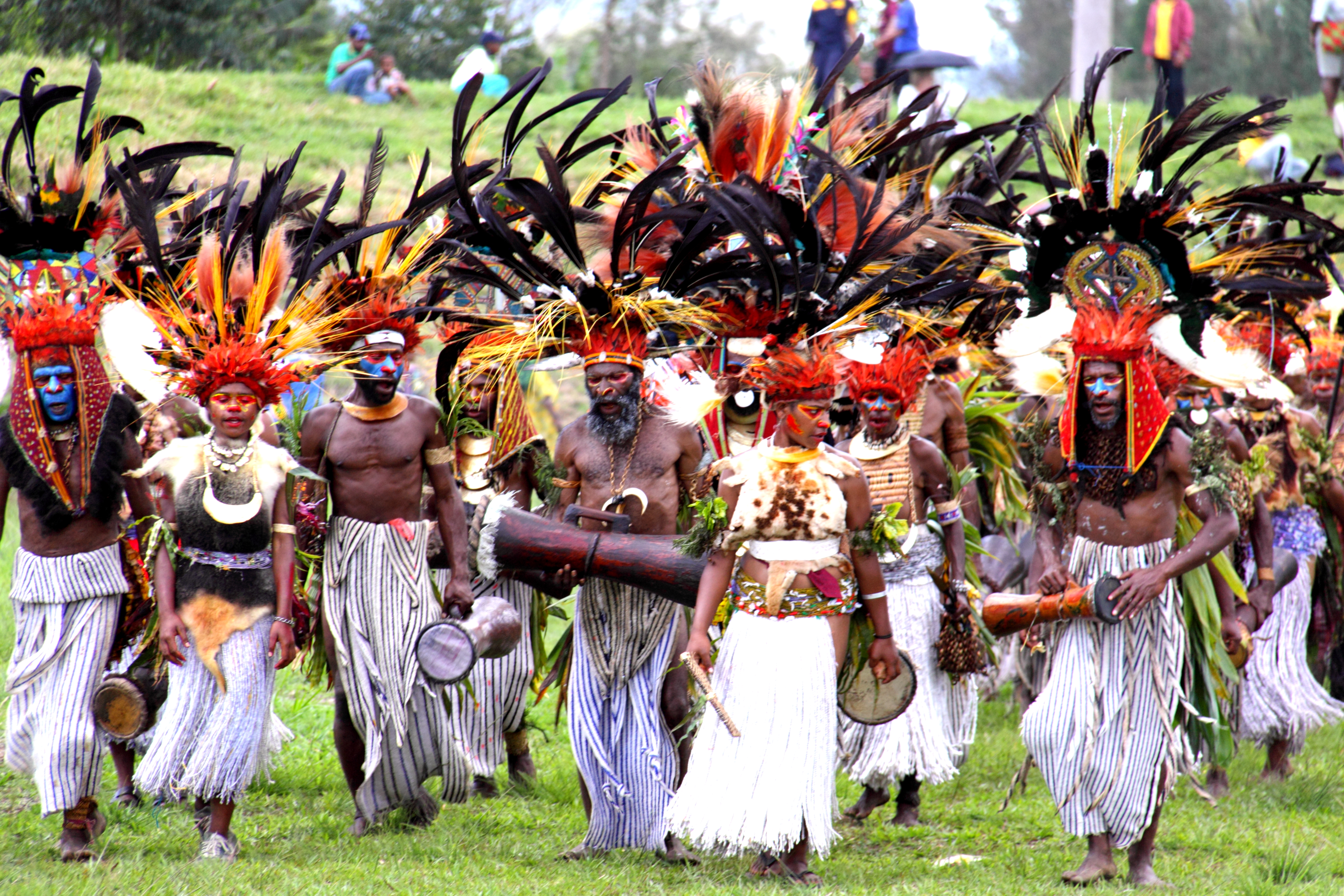 new guiney, papous from golgoi group